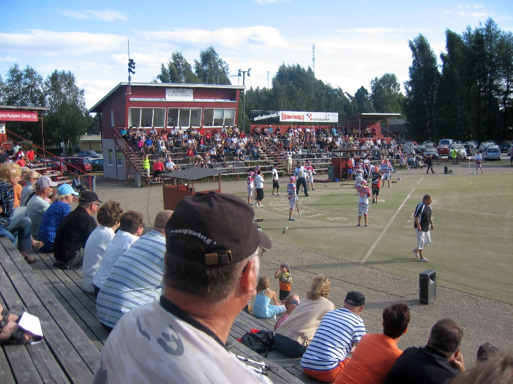 Sport field of Viinijarvi, Liperi